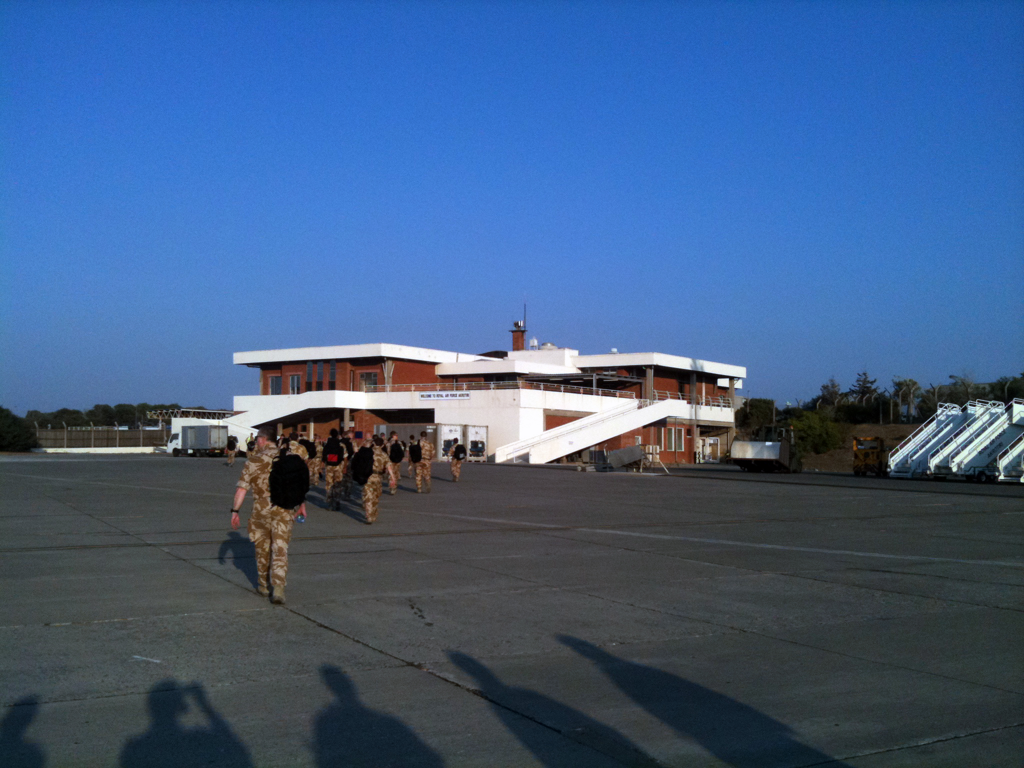 'Terminal 1' at RAF Akrotiri. Naval reservists in the foreground.